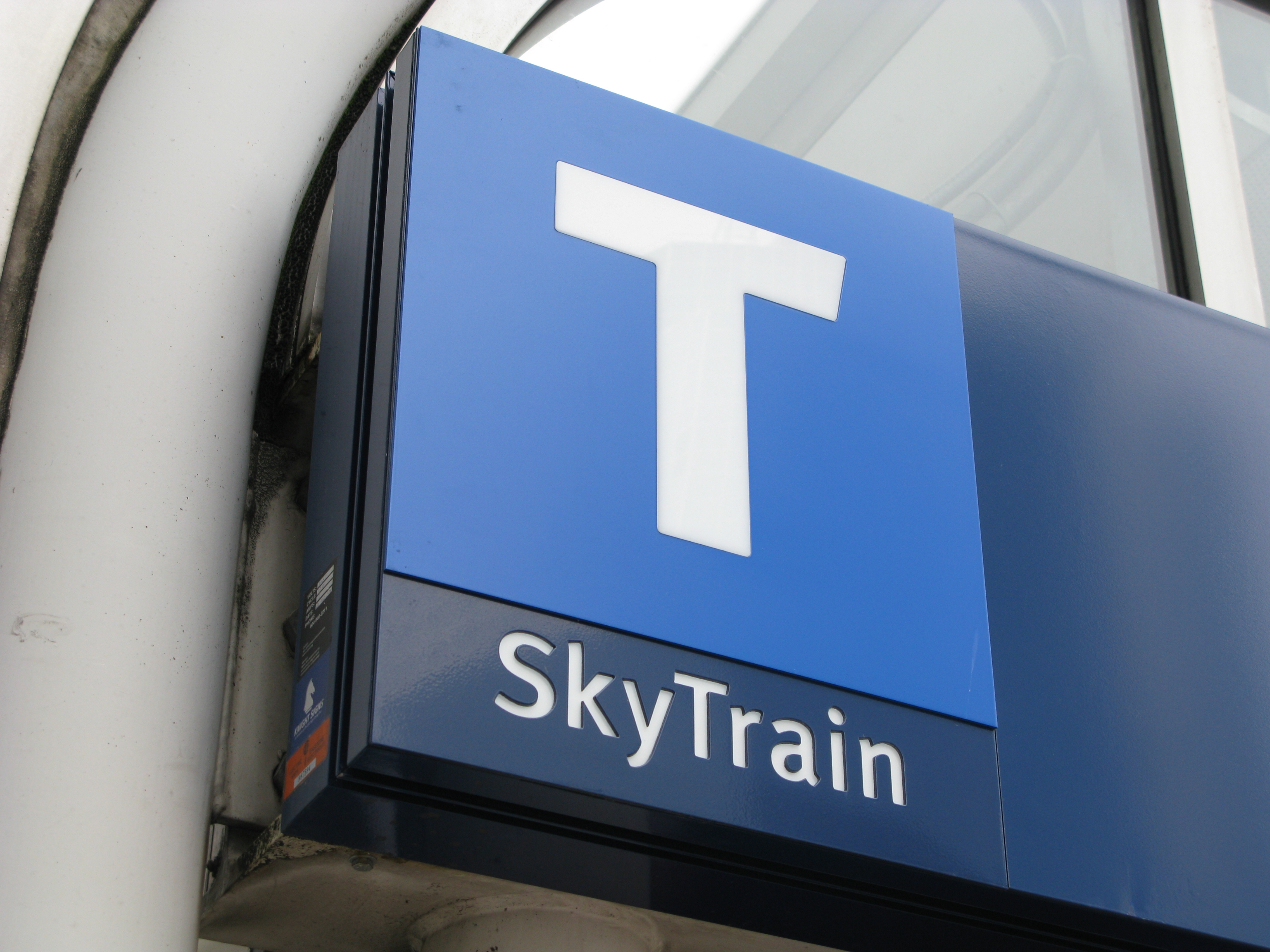 Translink Rapid Transit System Signage